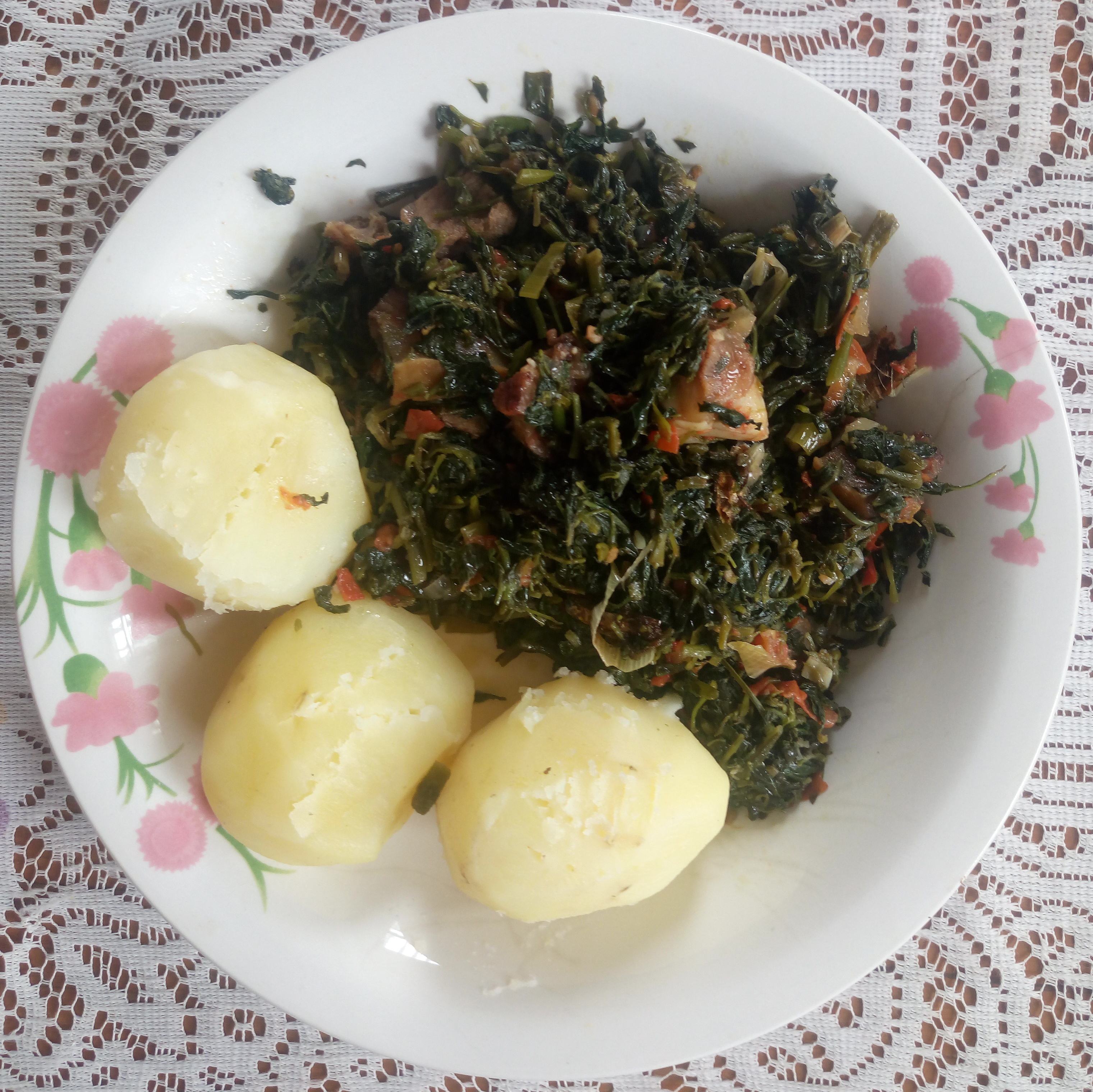 A popular meal of boiled potato served with vegetables